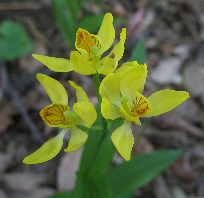 Photograph of Cephalanthera falcata,taken in Machida city, Tokyo, Japan.